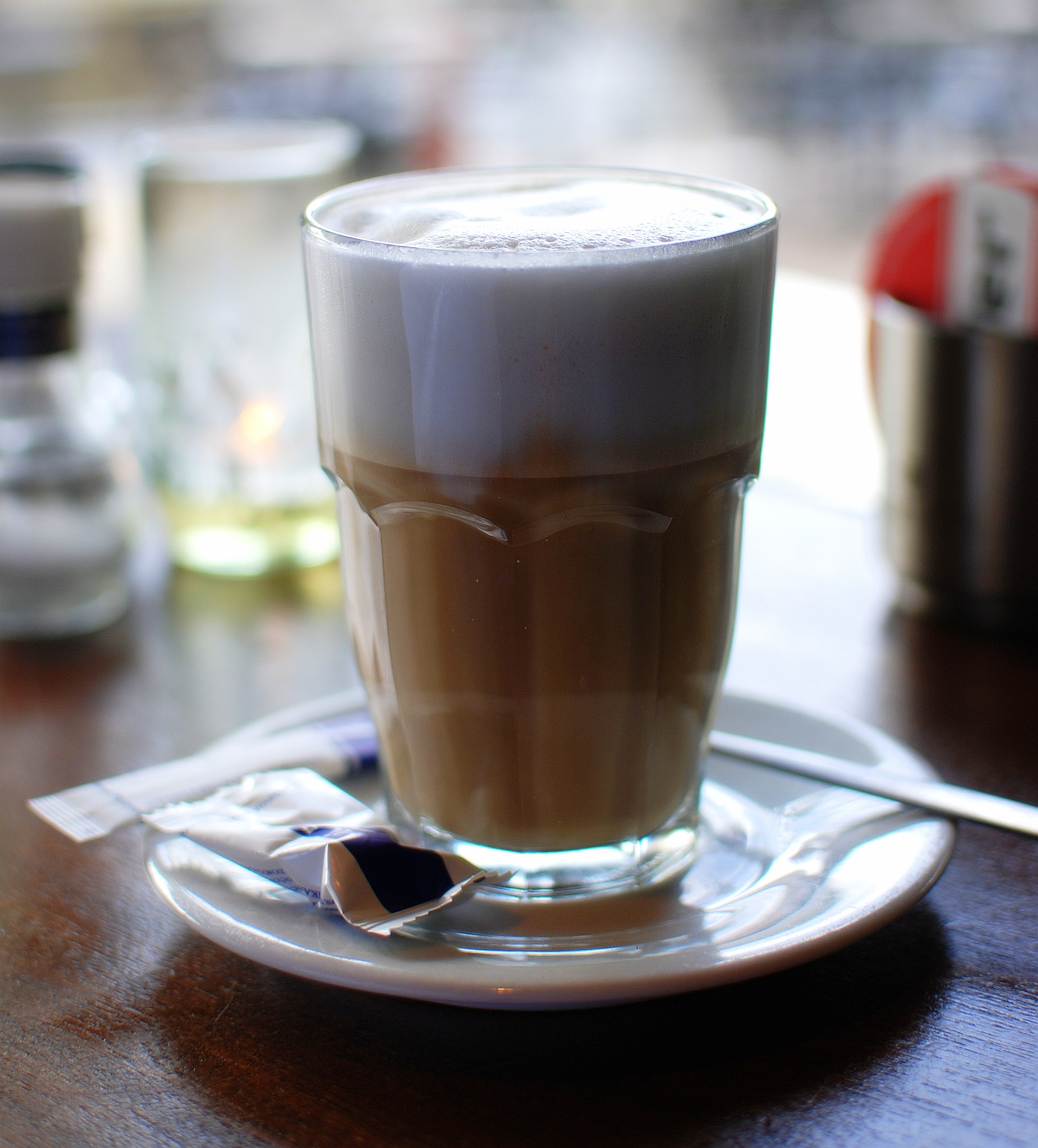 A "koffie verkeerd" in Amsterdam. Literally it's Dutch for "coffee wrong", meaning that it contains too much milk compared with a "normal" coffee with milk. It is the Dutch version of the Italian "caffèlatte"/"latte". A traditional Dutch koffie verkeerd is made with filter coffee and resembles a French "café au lait" but due to the fact that most venues now use espresso machines, the Italian version with a "caffè lungo" at its base, is more commonly found.